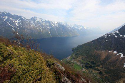 View of Ytre-Standal in Hjørundfjord